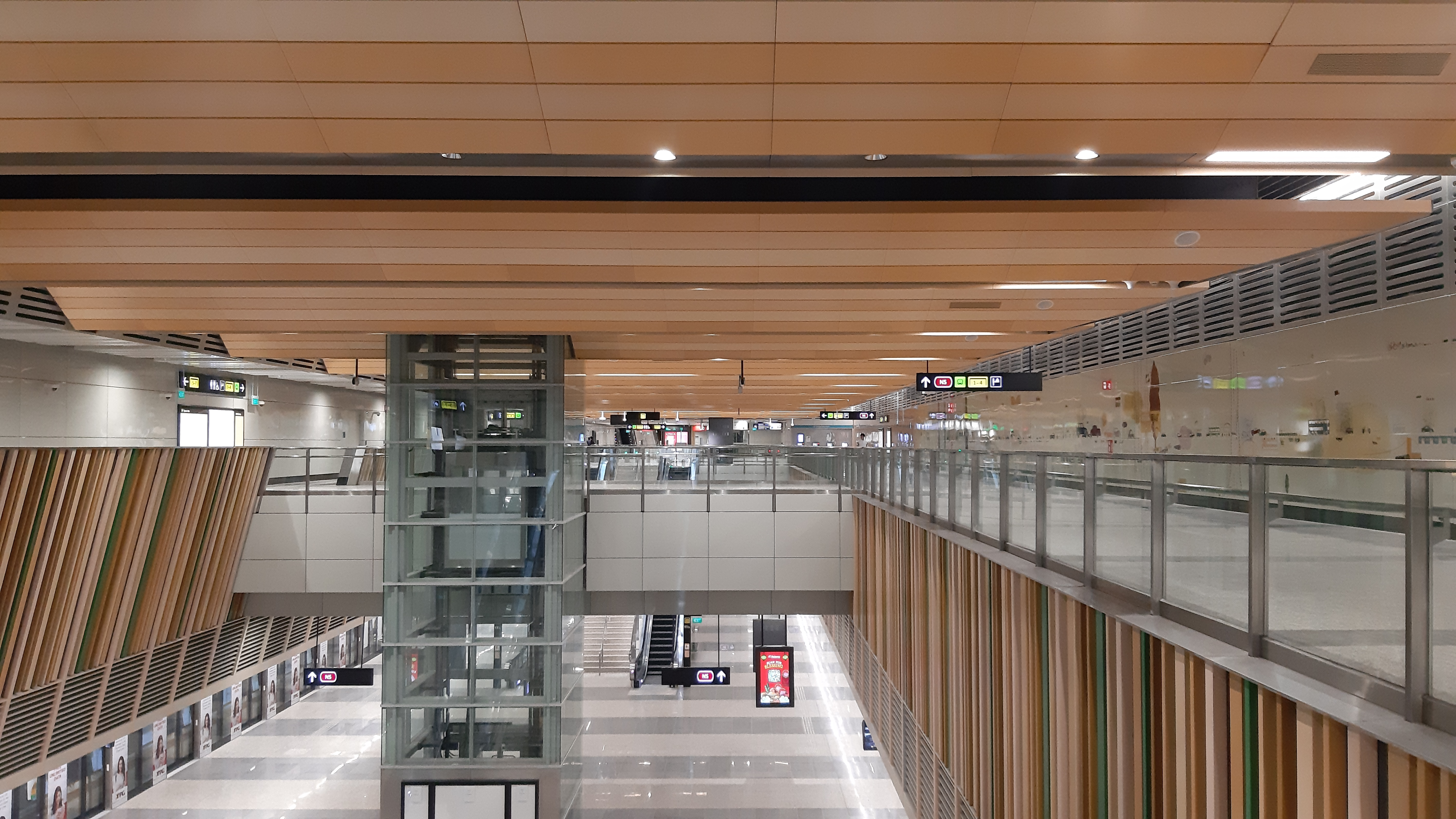 TE2 Woodlands MRT station on the concourse level, facing north towards the transfer linkway to NSL.